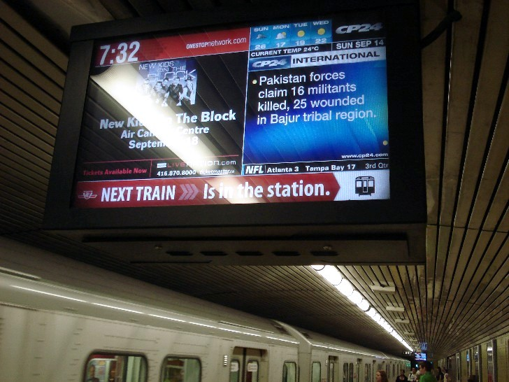 TTC OneStop Sign with Next Train Banner at Dundas Subway Station